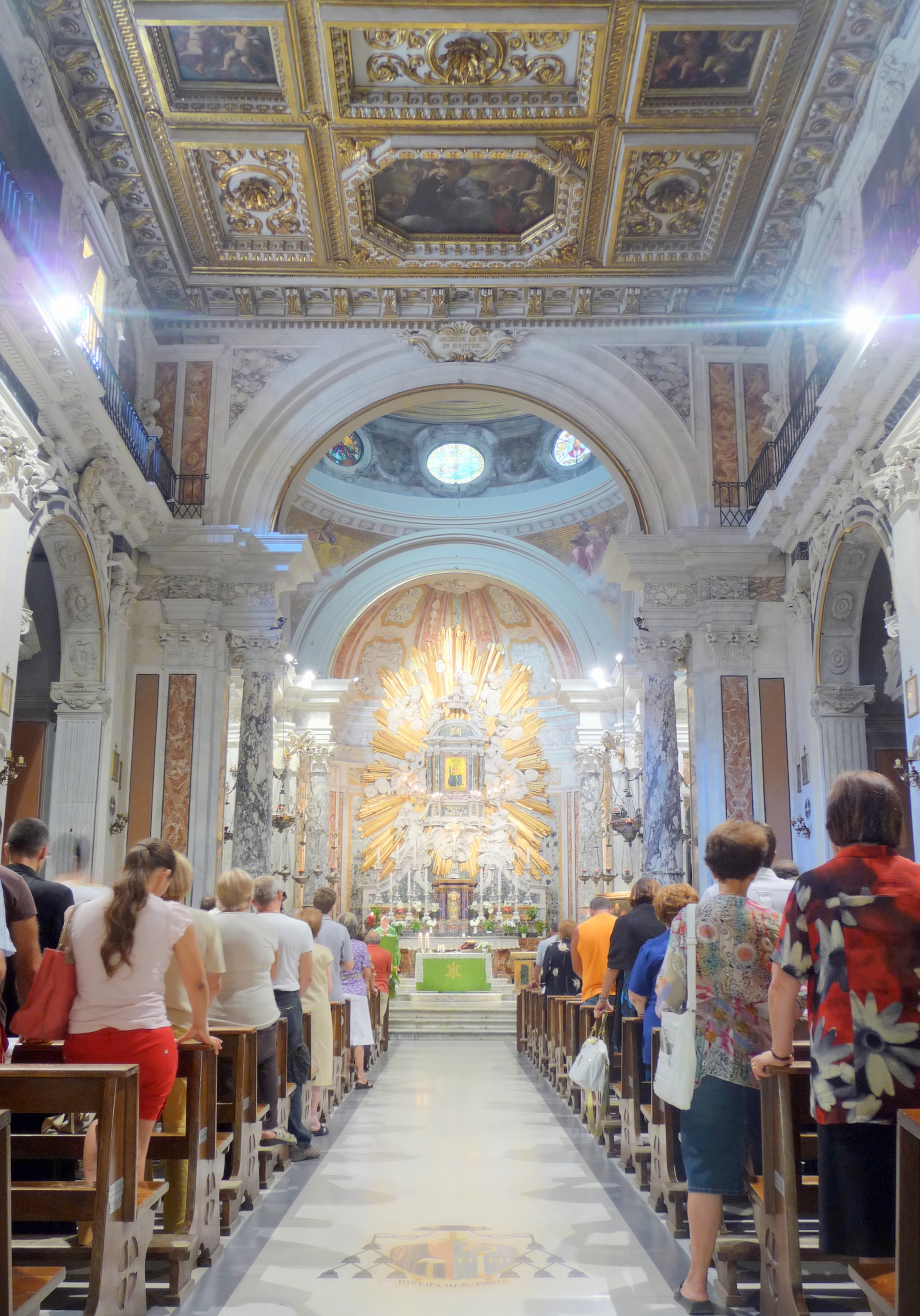 Church of the Santuario della Madonna delle Grazie, Livorno, Tuscany, Italy